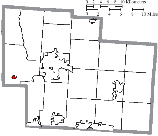 Map of the municipal and township boundaries of Delaware County, Ohio, United States, as of the 2000 census, with the location of the village of Ostrander highlighted. Township borders are shown only in unincorporated areas in order to differentiate incorporated and unincorporated areas more clearly.